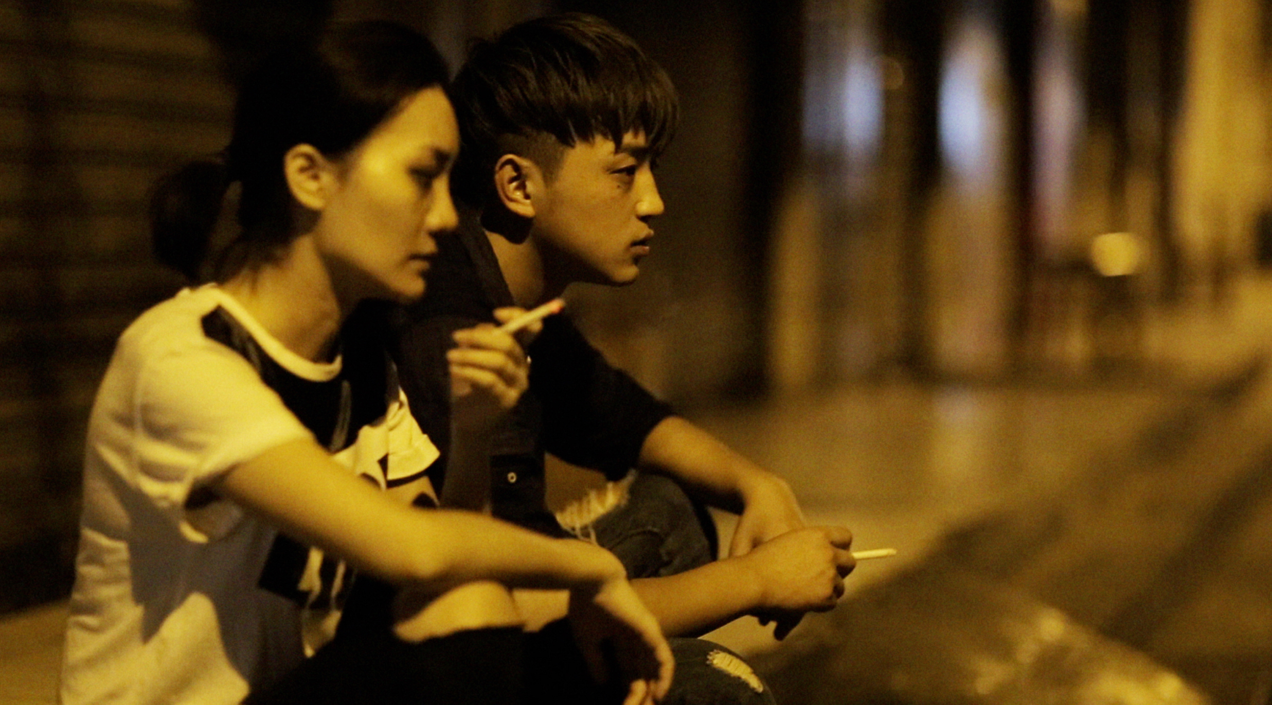 Still 2 from the film Floating Melon (Fu Guo, Sandía Amarga) directed by Roberto F. Canuto & Xu Xiaoxi in 2015, with Wen Sirui and Vincent Chen Xi.